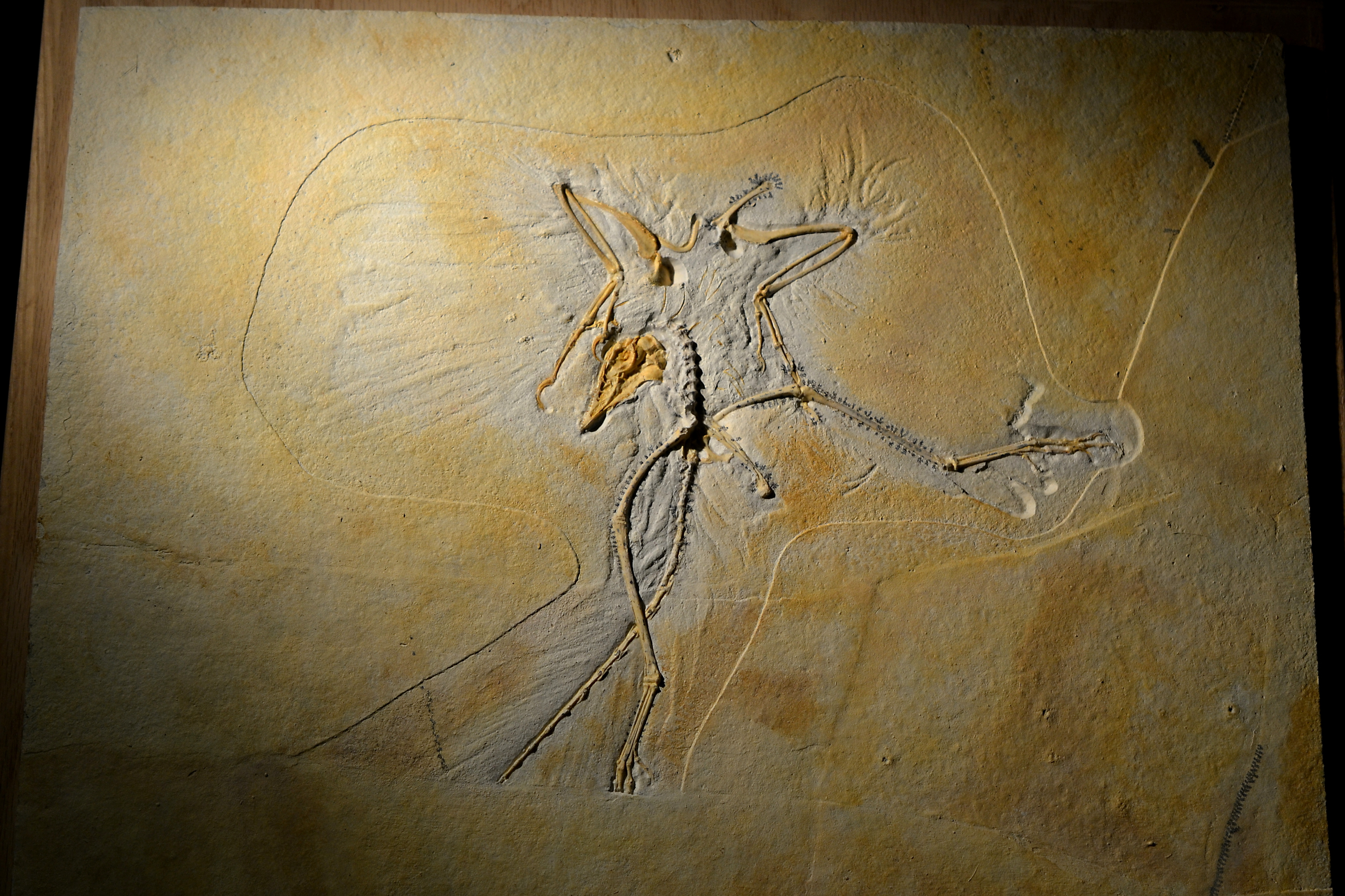 Wyoming Dinosaur Center